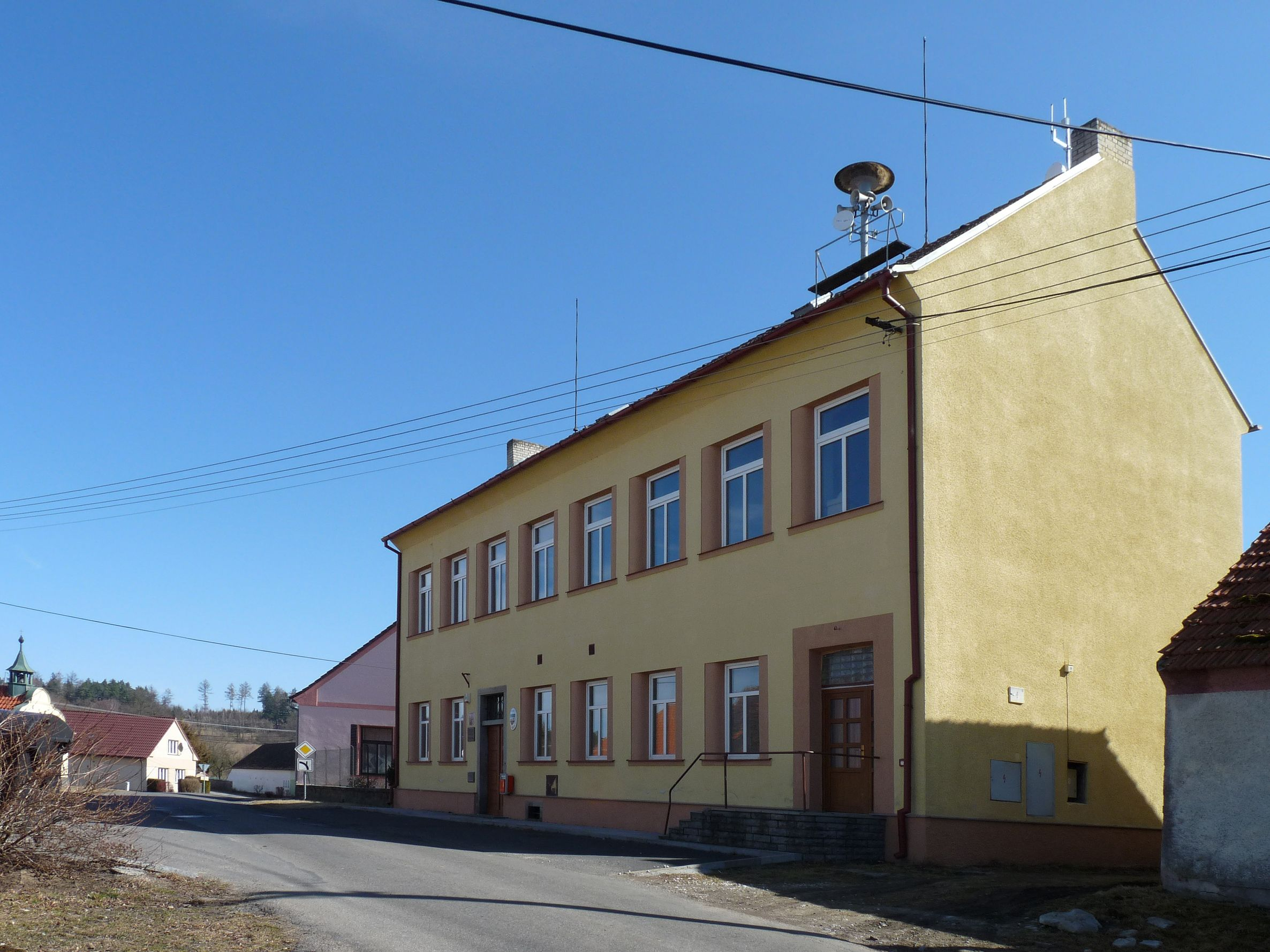 House No 62 in the municipality of Slatina, Klatovy District, Czech Republic - municipal office building, former village school